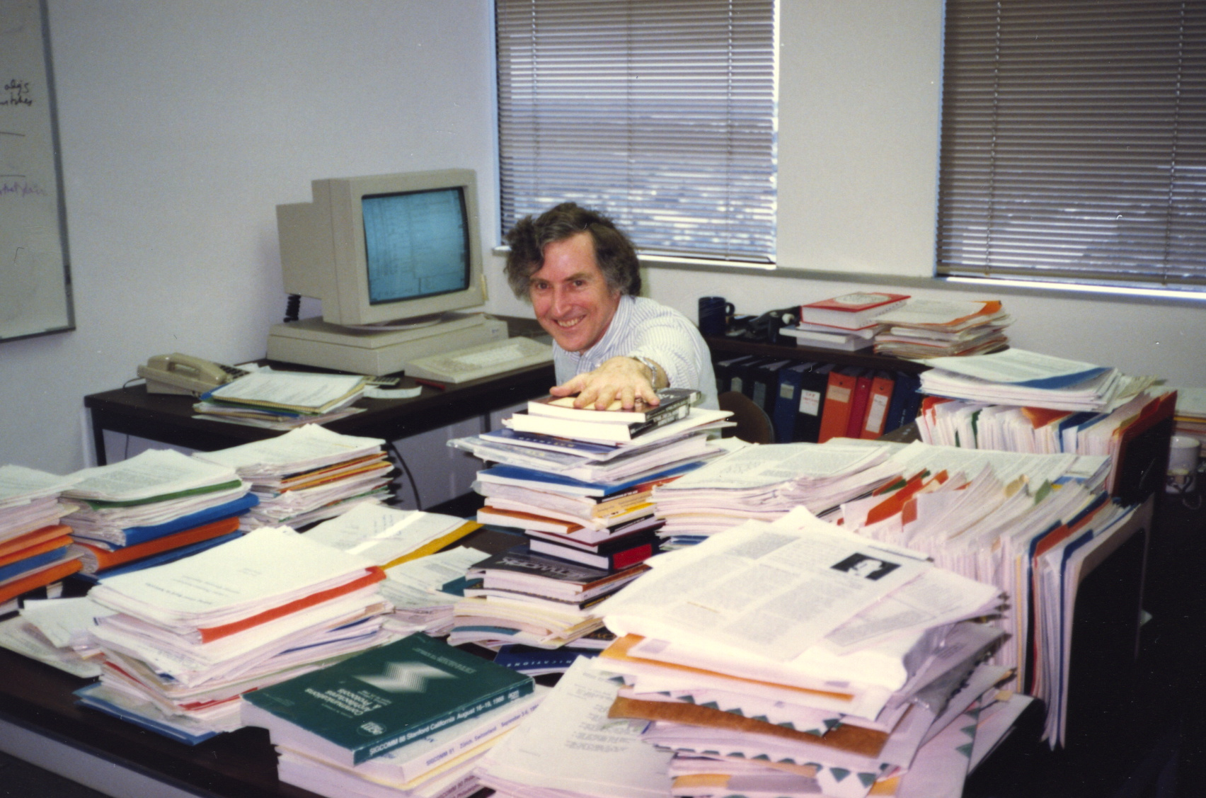 Bob Braden plots the future of the paperless office. Photo taken for Exploring the Internet.